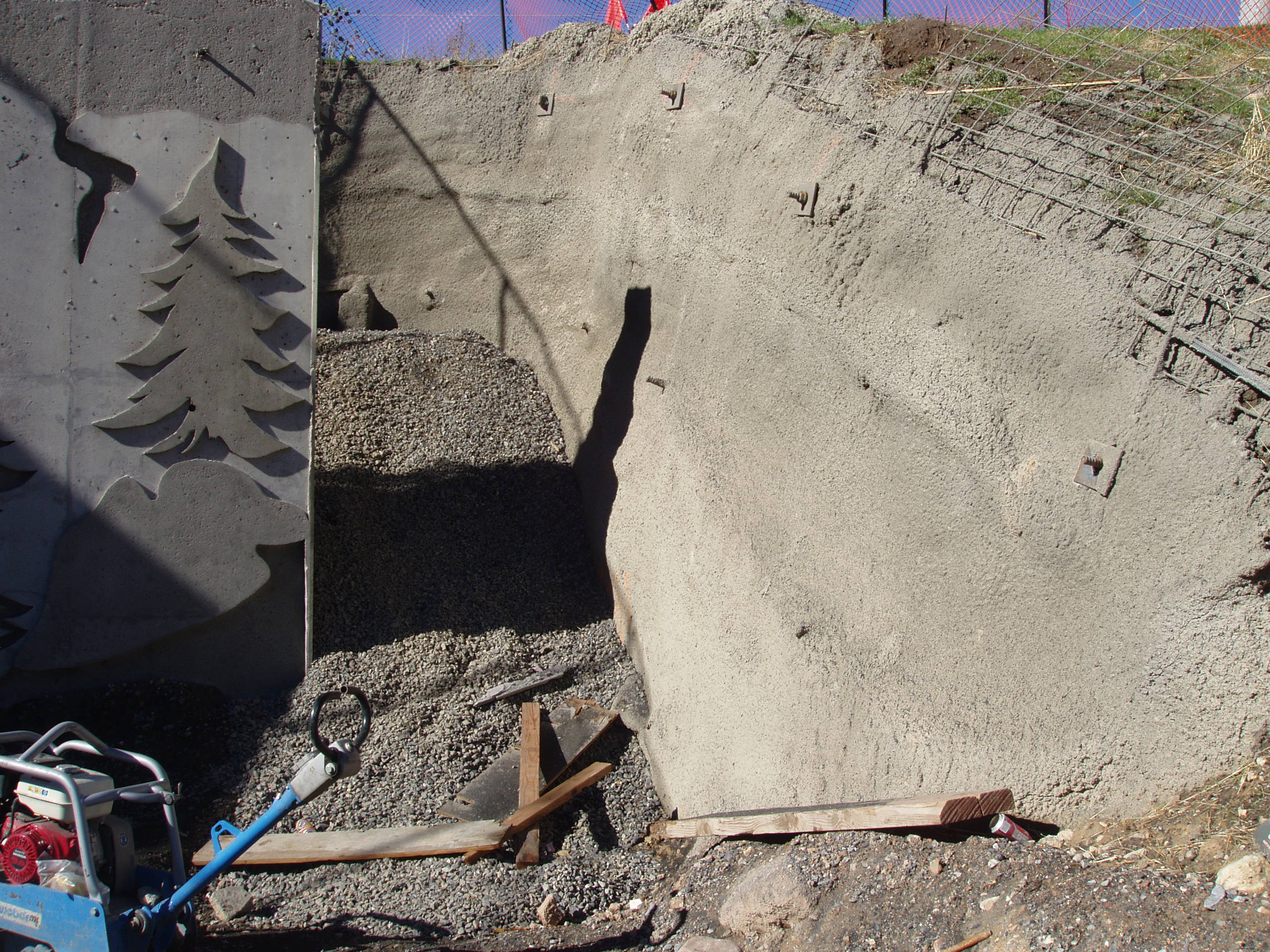 The approach embankments were stabilized to facilitate construction of the abutments and wingwalls as part of an FHWA, Highways for LIFE supported Utah DOT demonstration project to replace a bridge over an interstate during a weekend closure. Tiebacks were inserted ranging from 27 to 37 feet long in a grid system of 5 by 7 feet--a technique called soil nailing. After the tiebacks were inserted, shotcrete was applied to the entire exposed face of the approach (as seen here).